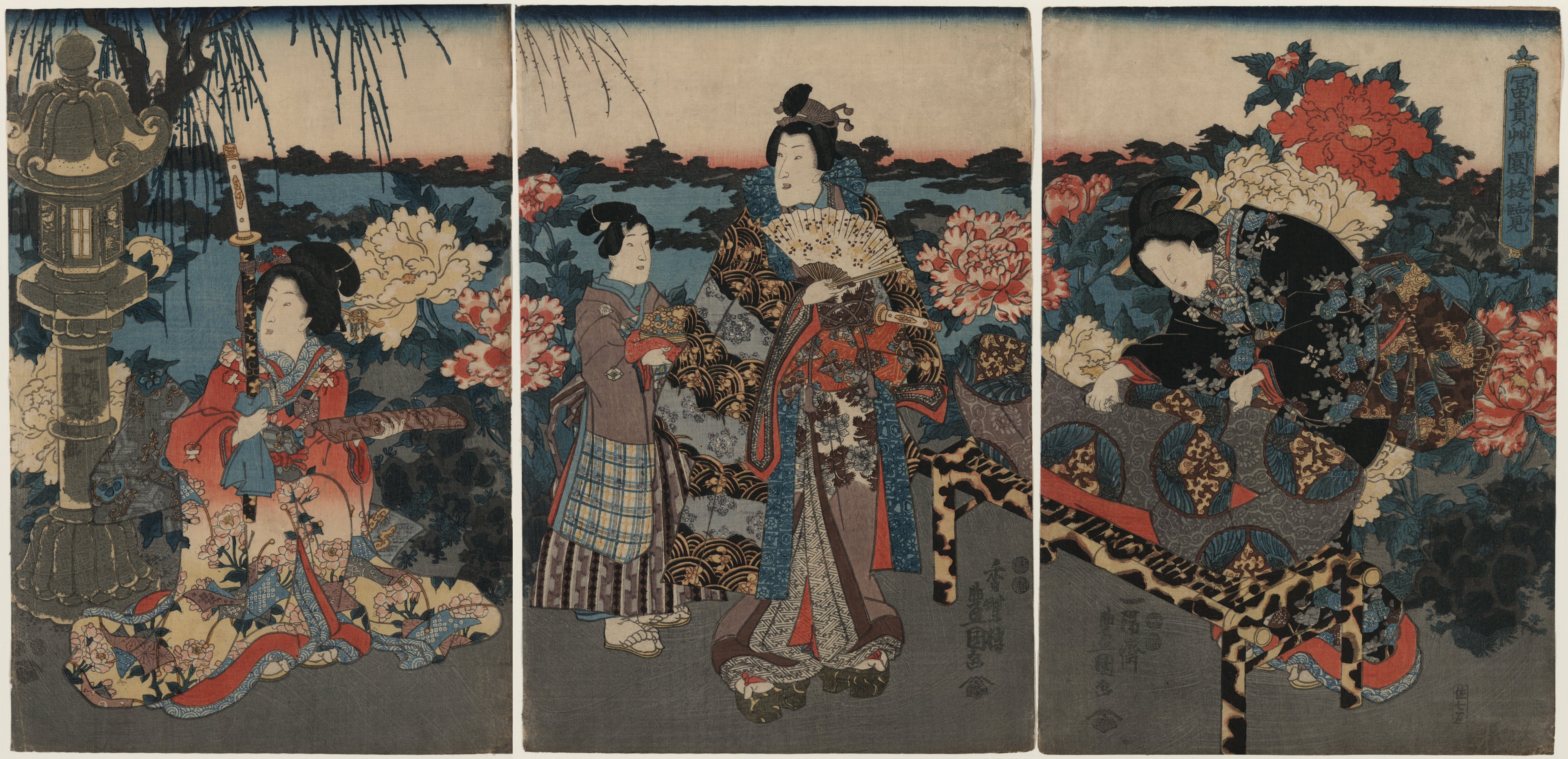 "Fukigusa sono no yuran" ( Enjoying the garden of the prosperous blooms). 19th century Ukiyo-e woodcut. Triptych showing prince Genji at a villa garden with giant flowers. Ōban size prints. Title and other information based on entry for item in exhibition catalog. Exhibited: "The Floating world of Ukiyo-e: shadows, dreams and substances," organized by the Library of Congress, 2001. Signature: ’Kōchōrō Toyokuni ga’ (center sheet) ’Ichiyōsai Toyokuni ga’ (left and right sheet); publisher: Tsutaya Kichizō; censor seals: Fuku and Muramatsu; carver seal: Sashichi tō.